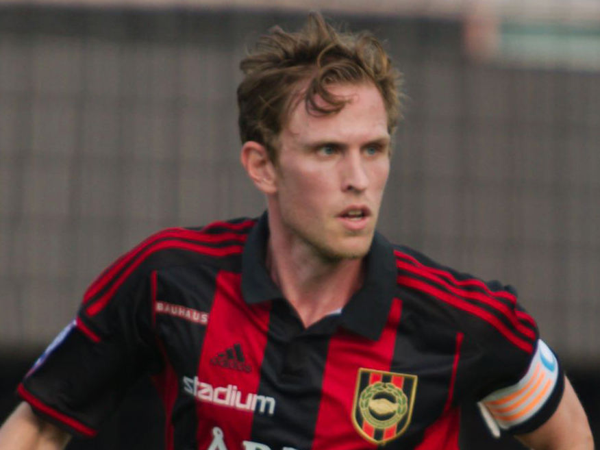 Allsvenskan IF Brommapojkarna-Malmö FF at Grimsta IP